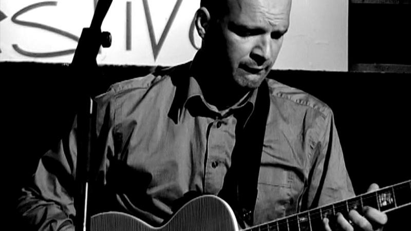 Wolfgang Muthspiel live at INNtöne Jazzfestival 2006